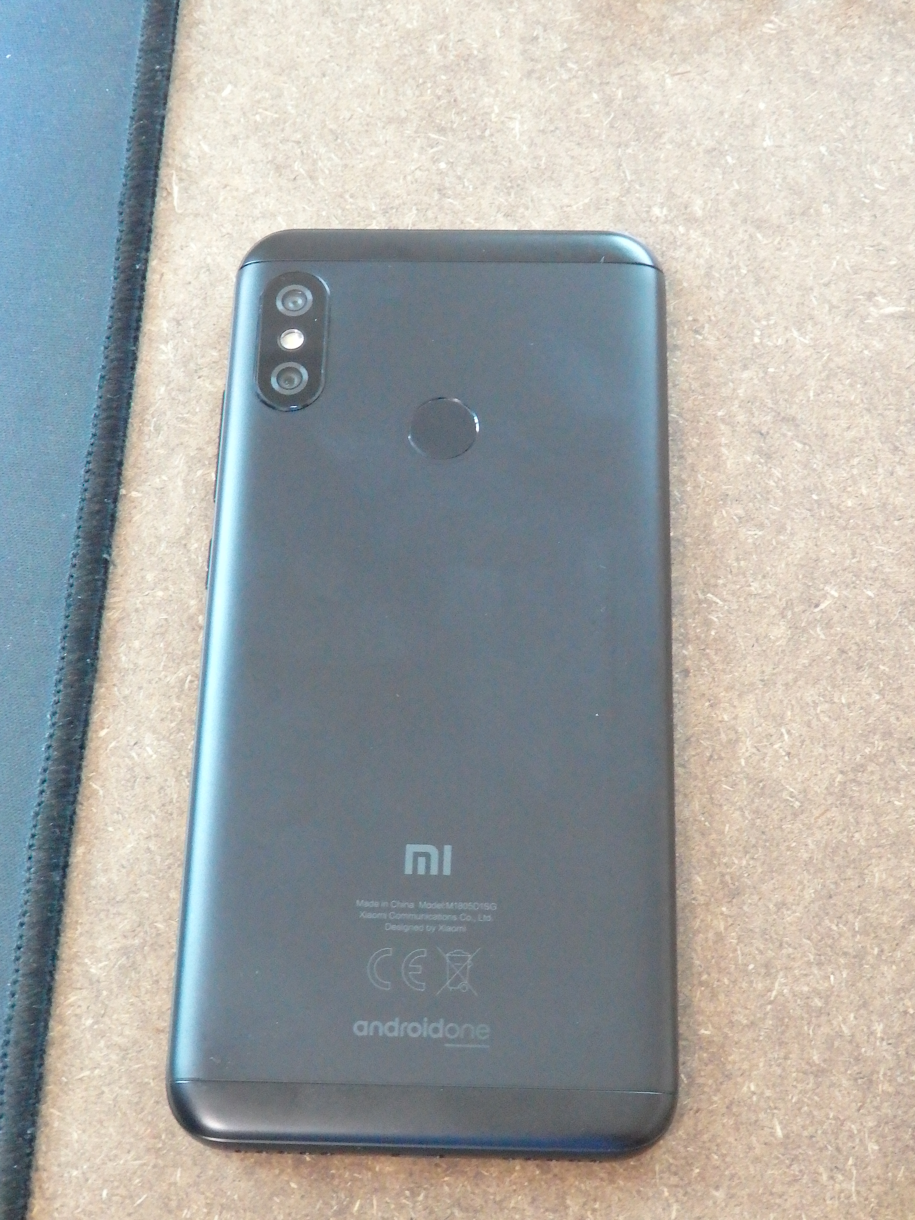 Back of a Xiaomi Mi A2 Lite.